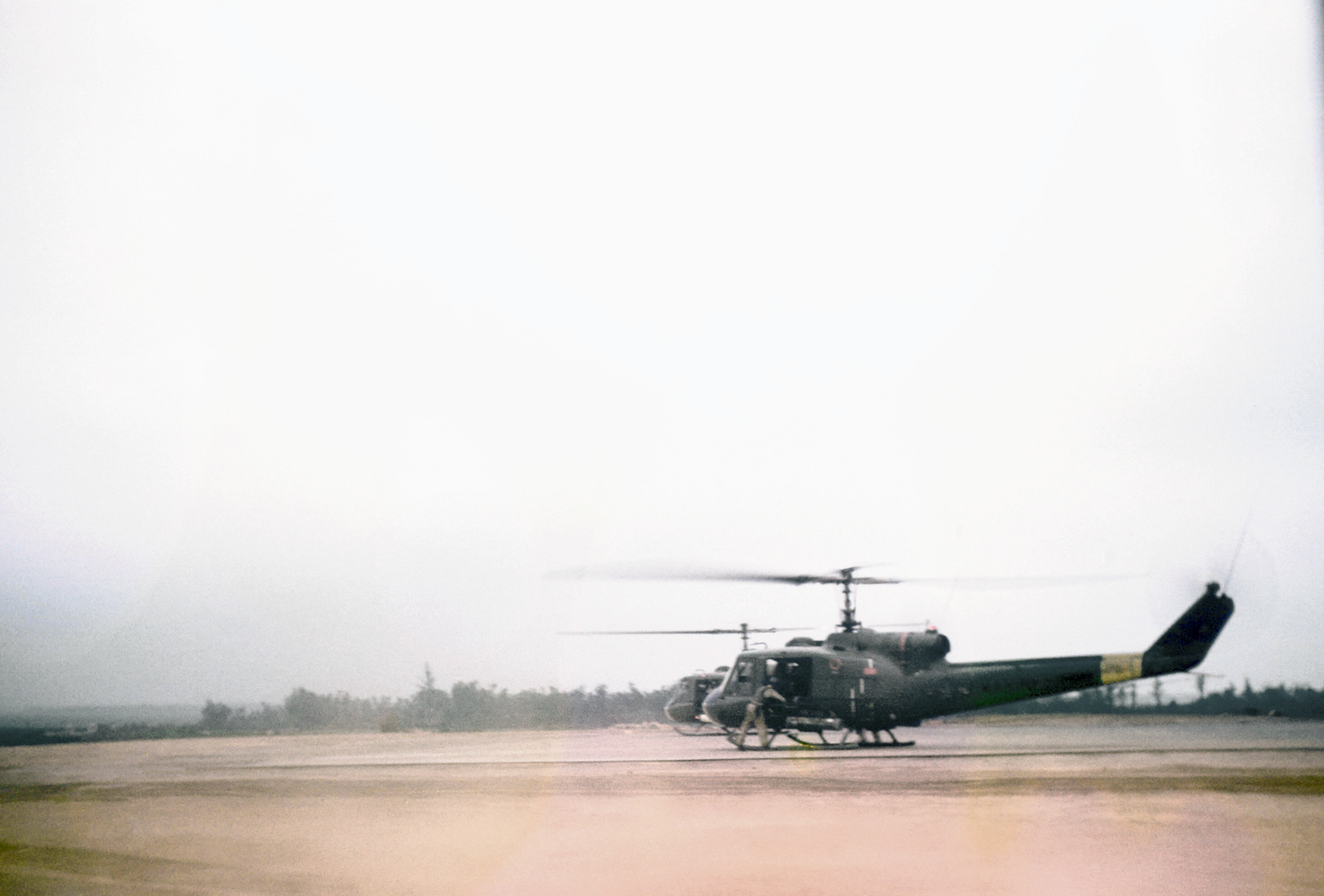 Original caption: "A Marine aircrewman arms rockets on his UH-1E Iroquois helicopter while on the runway at Dong Ha. Another UH-1E is in the background."